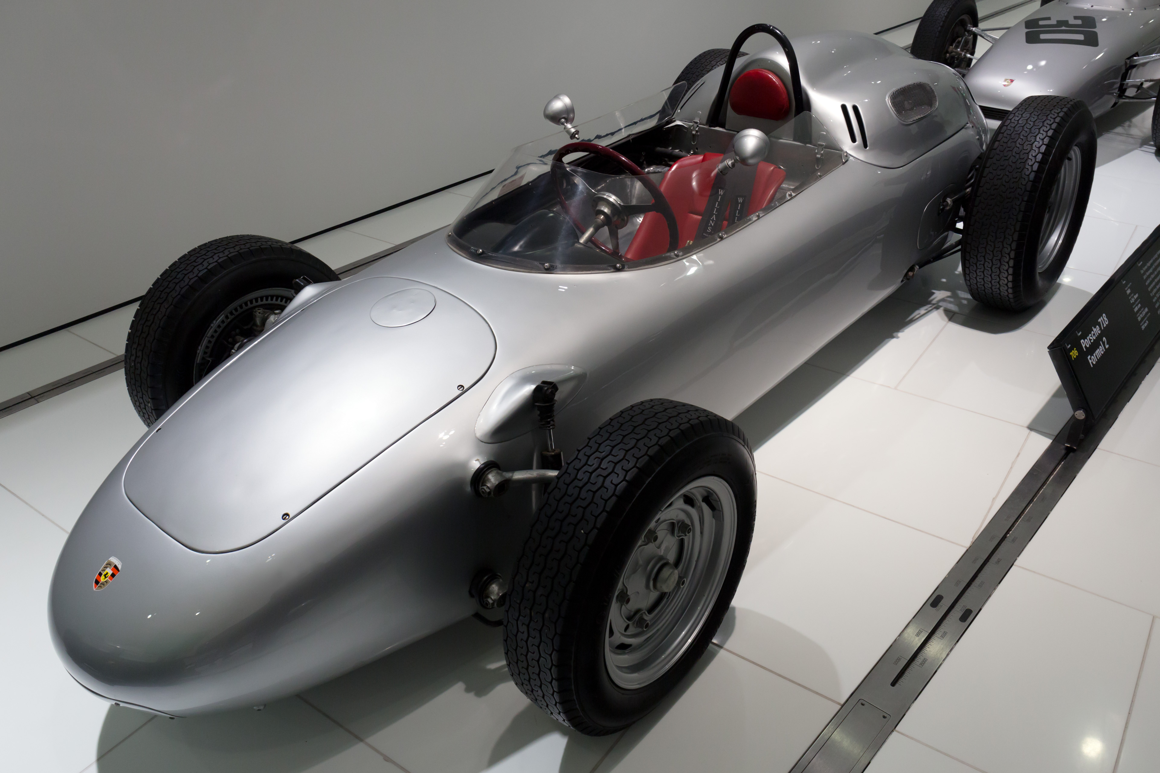 1960 Porsche 718 F2